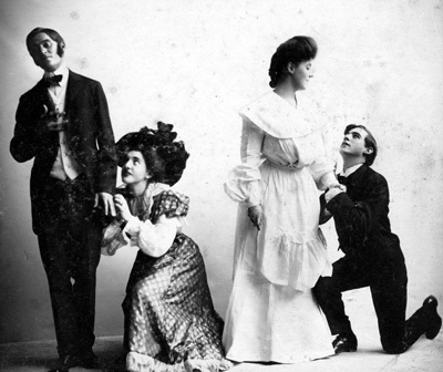 Sophie Treadwell, ca. 1902-1906, kneeling second from left, in a University of California, Berkeley drama production MS 318 Box 21 folder 3 6"x9.5" Special Collections, University of Arizona Library